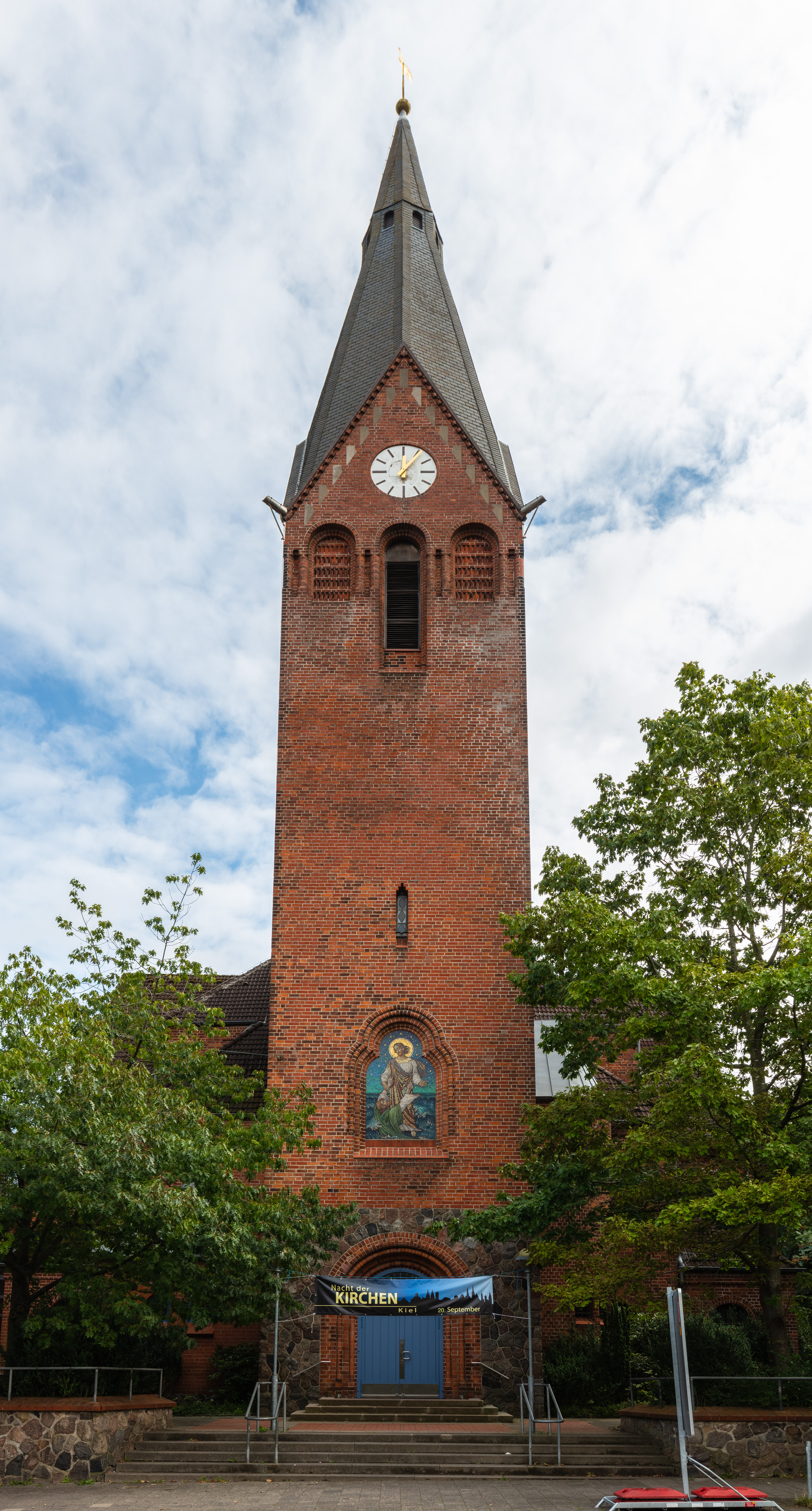 St Henry church, Kiel, Germany